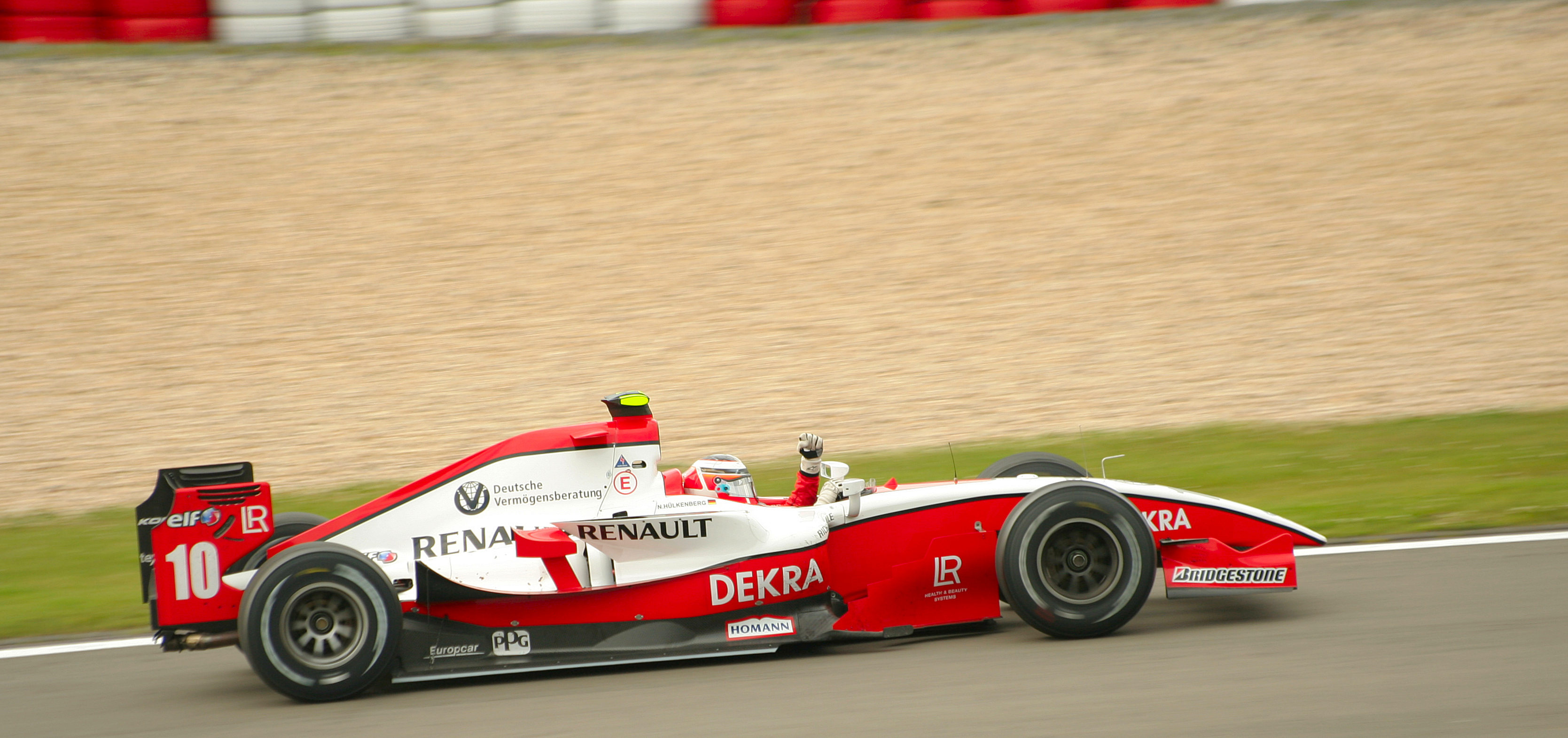 Nico Hülkenberg driving for ART at Round 5 of the 2009 GP2 Series at Nürburgring, Germany.